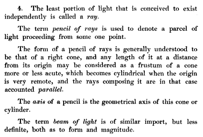 definitions of ray, pencil, and beam, in Optics, scanned by Google from Henry Coddington's 1829 A system of optics, Part 1.